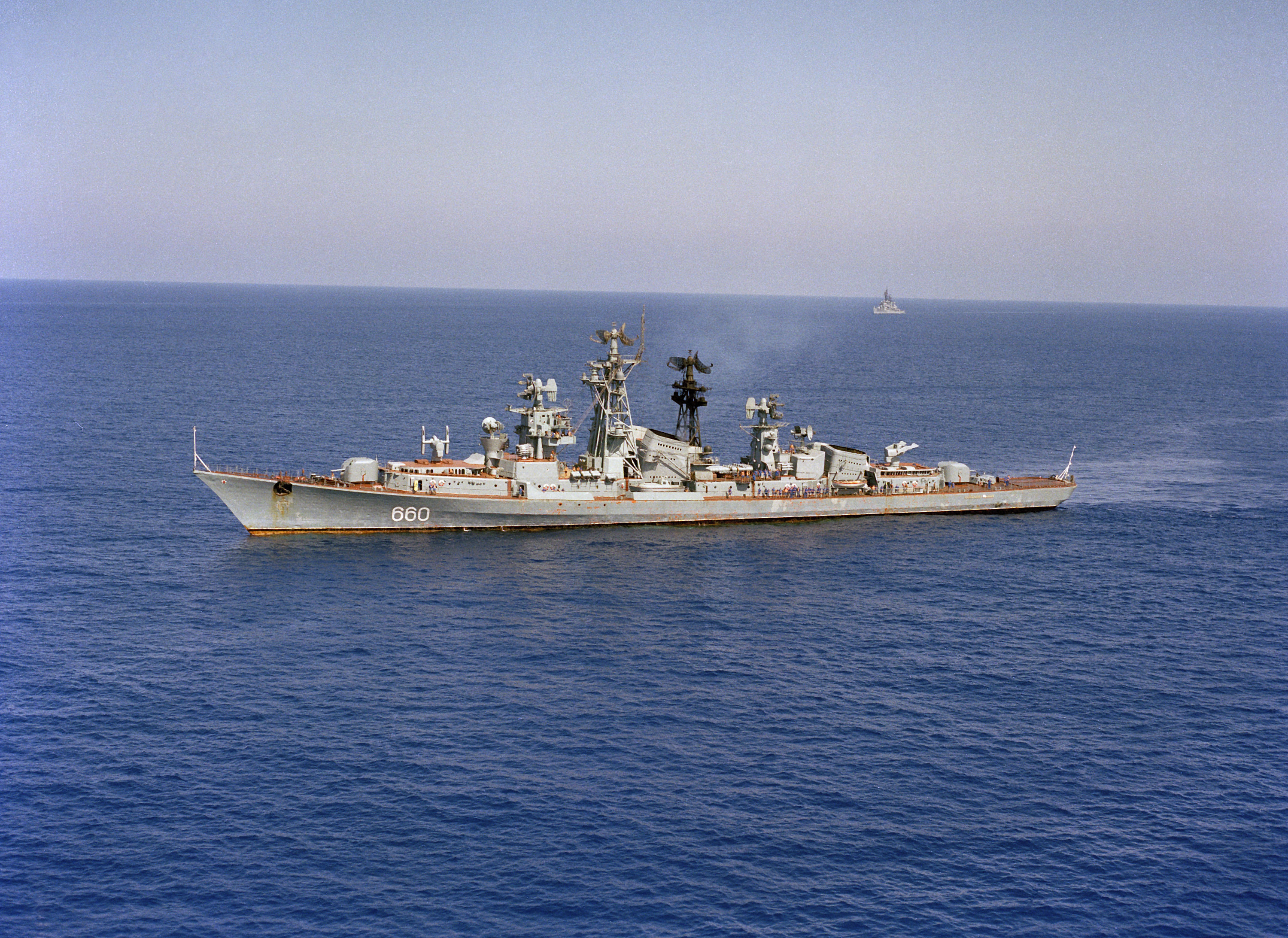 Large ASW ship Soobrazitel'nyy.